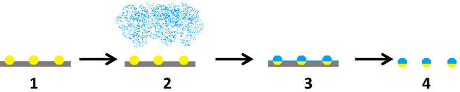 Schematic view of the synthesis of Janus nanoparticles via masking. 1) Homogeneous nanoparticles are placed in or on a surface in such a way that only one hemisphere is exposed. 2) The exposed surface is exposed to a chemical 3) which change it's properties. 4) The masking agent is then removed releasing the Janus nanoparticles.